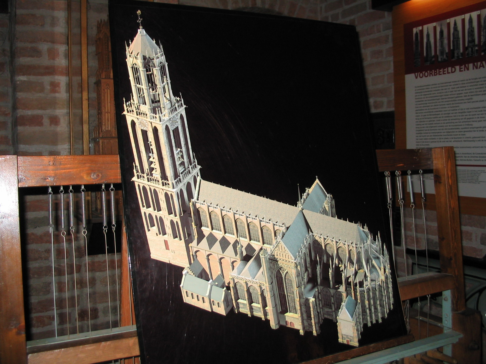 Photo of a picture of the Dom church in Utrecht, Netherlands as it would've looked when it was complete. Photograph taken by me personally on 27/2 at the museum of the Dom Tower.